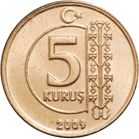 5 kuruş obverse